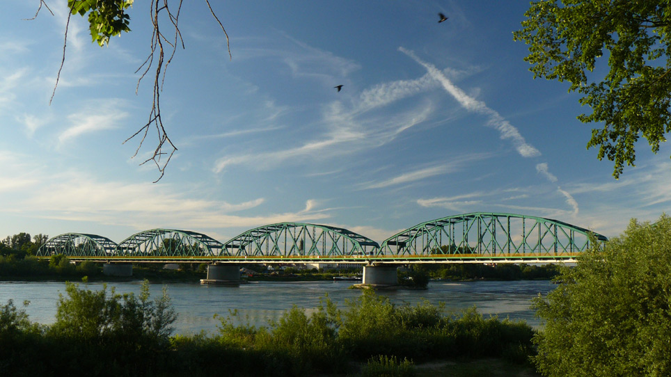 The bridge in Bydgoszcz - Fordon